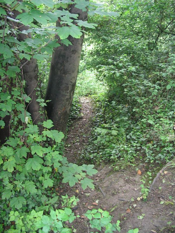 One of the more overgrown parts of the Hilsea Line path, Portsmouth, England